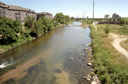 South Platte River in Denver, Colorado